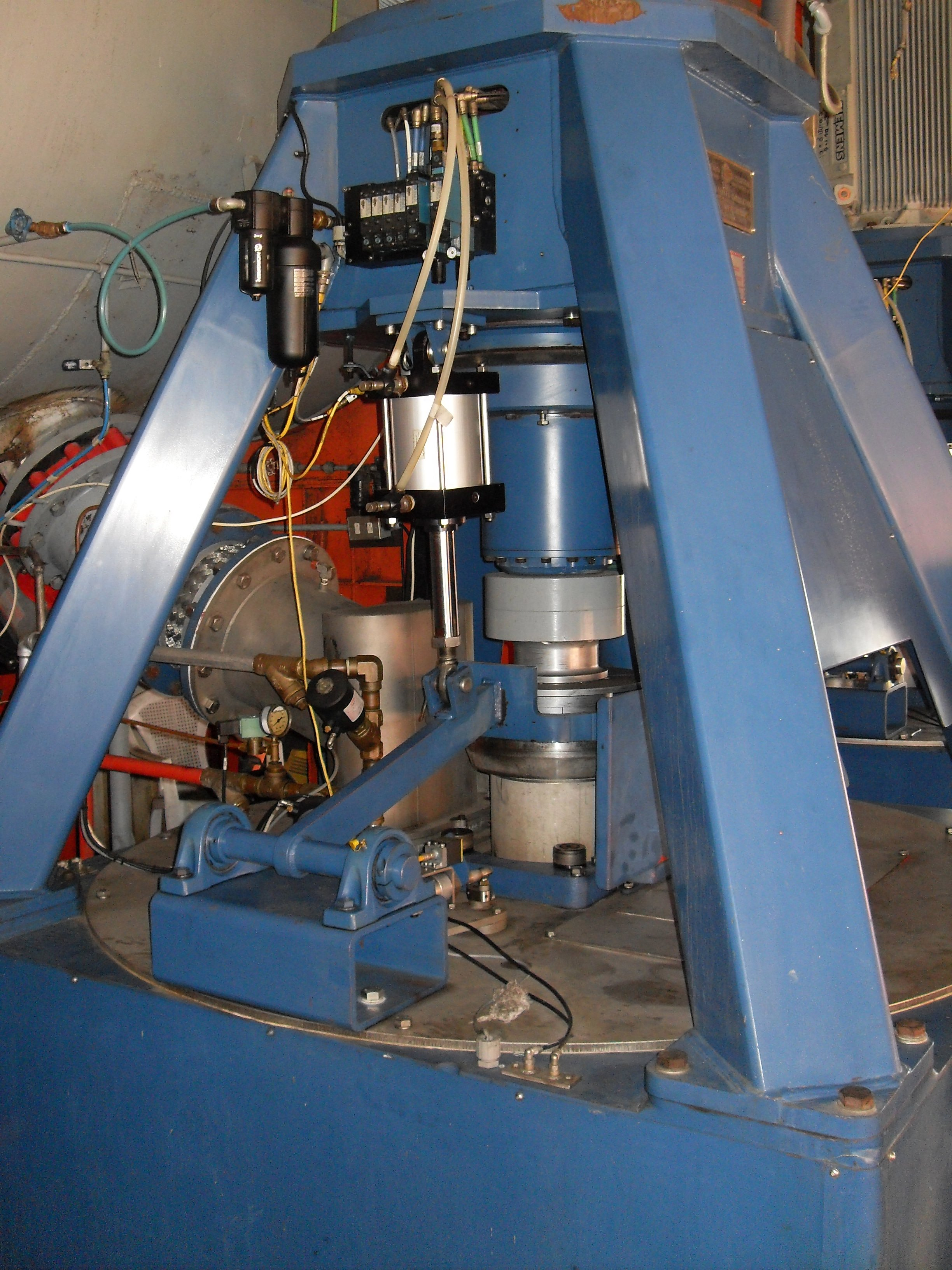 batch type sugar centrifugal